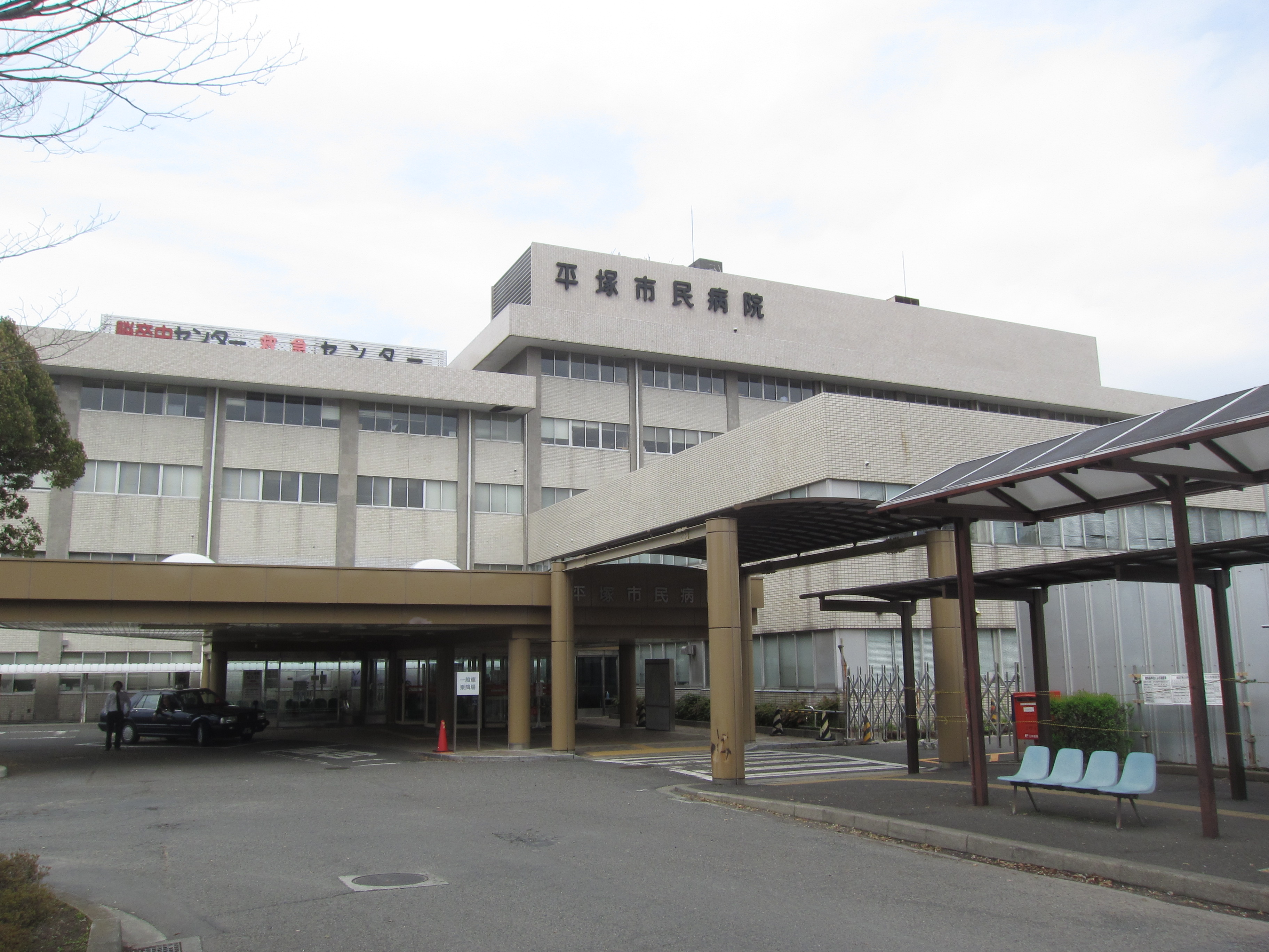 Hiratsuka City Hospital